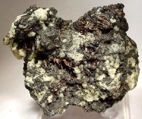 Silver Locality: El Mochito Mine, Santa Bárbara Department, Honduras (Locality at ) A RARE, EXCELLENT and SHOWY silver wire specimen from Honduras!! Lustrous to tarnished, curved silver wires are richly scattered on the vuggy matrix of this very fine old-timer. Many of the wires have a fine patina. Honduras silver specimens are VERY SELDOM seen on the market and this is choice material. 6.1 x 5.7 x 5.2 cm